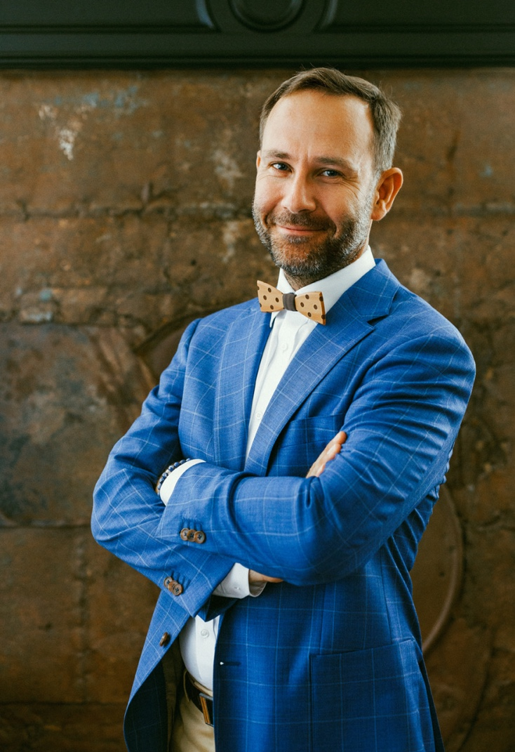 Picture of Daniel Šváb in a Portamento MTM suite.